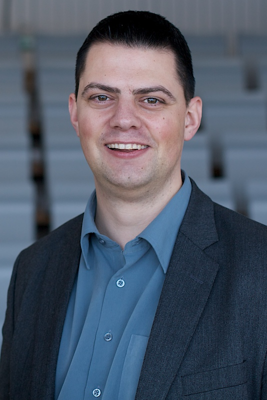 Danish politician Daniel Nyboe Andersen.